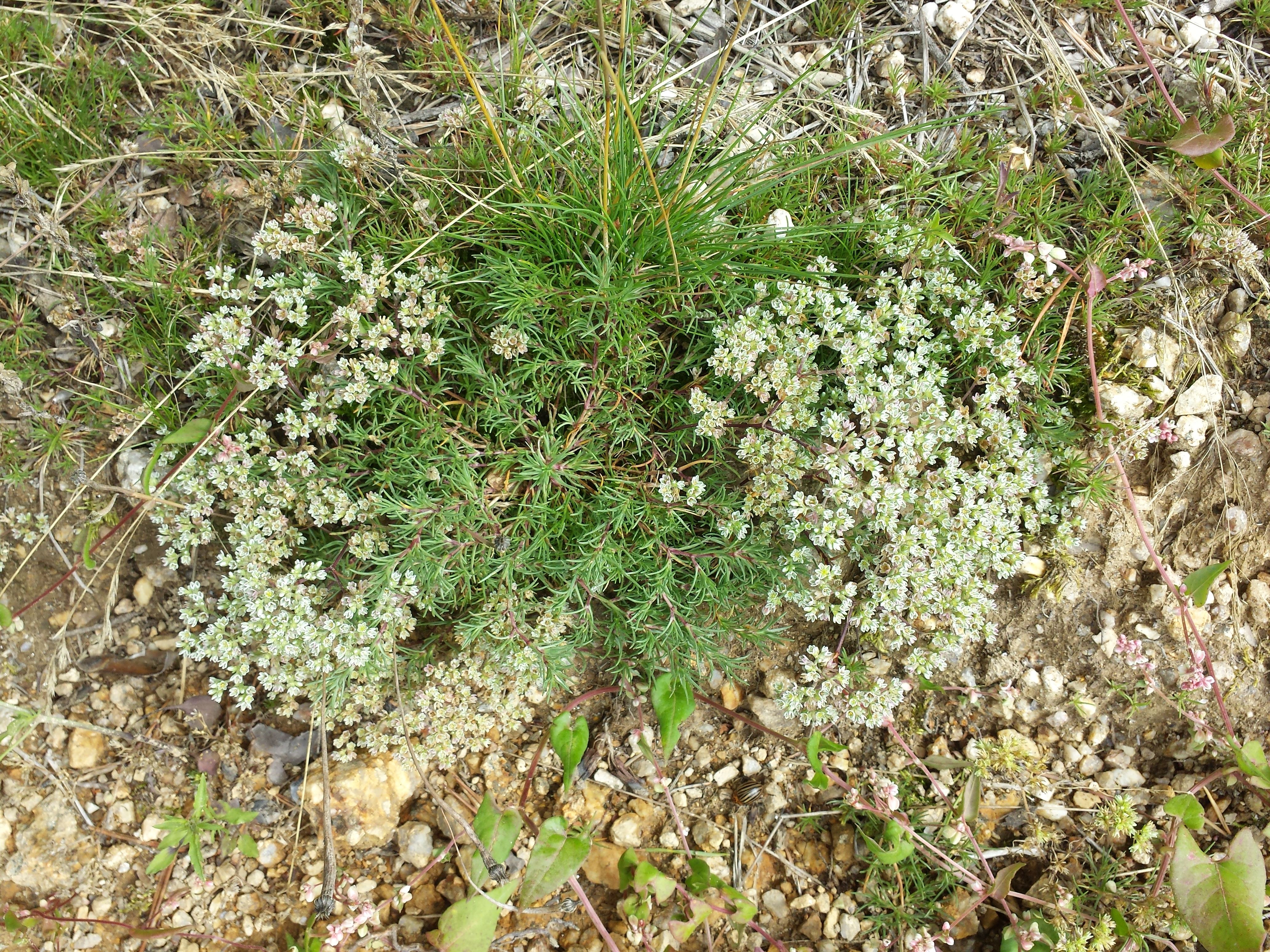 Habitus Taxonym: Scleranthus perennis ss Fischer et al. EfÖLS 2008 ISBN 978-3-85474-187-9 Location: next to Marharts, Groß-Gerungs, district Zwettl, Lower Austria - ca. 800 m a.s.l. Habitat: wayside/slope